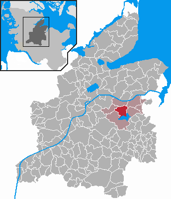 Locator maps of municipalities in Schleswig-Holstein - District Rendsburg-Eckernförde